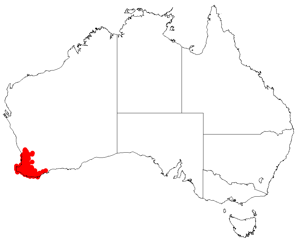 Bossiaea ornata Occurrence data downloaded 11 September 2018 from AVH